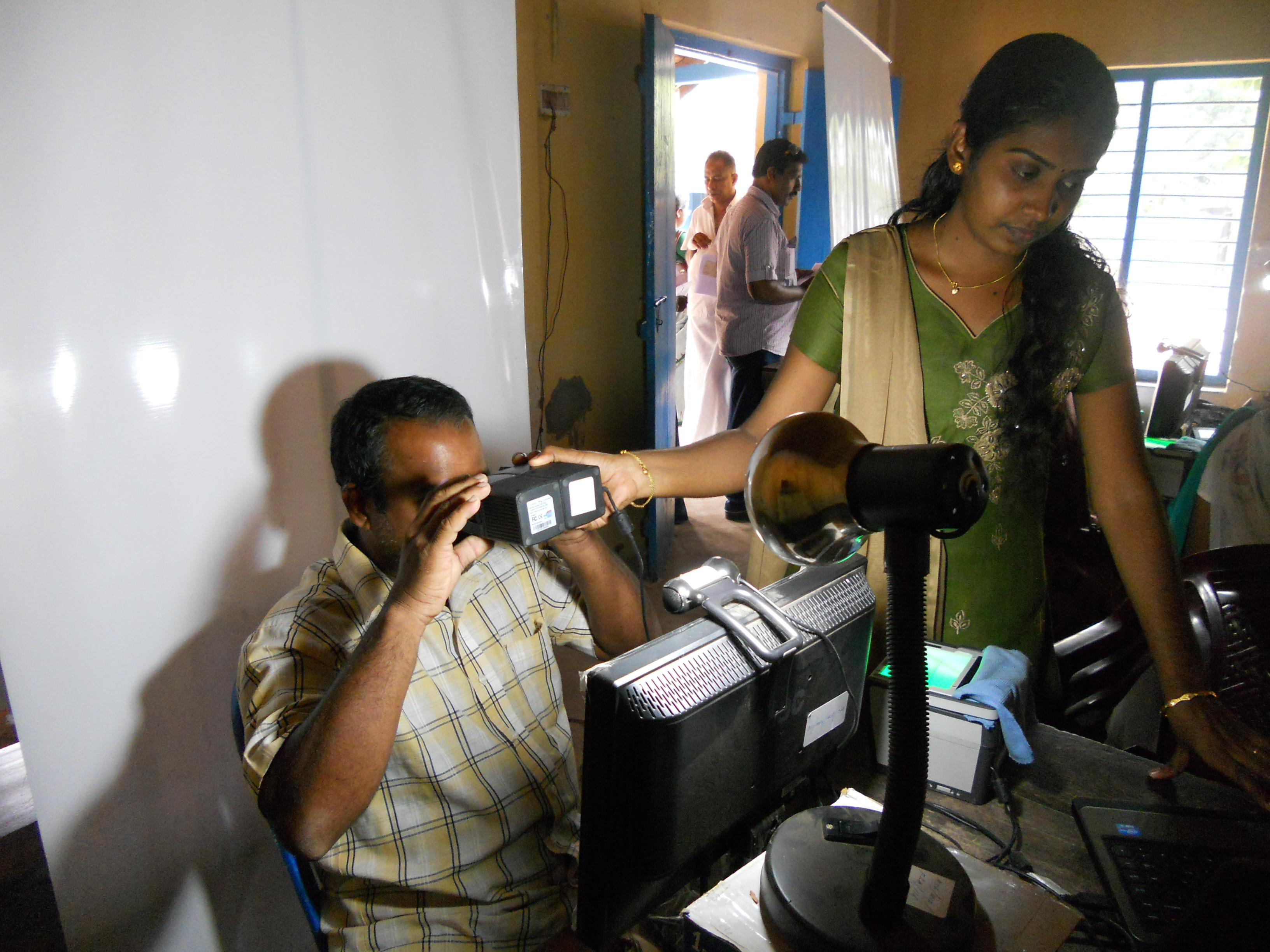 collecting image of iris for Aadhaar,a 12-digit unique number which the Unique Identification Authority of India (UIDAI) will issue for all residents in India.The number will be stored in a centralized database and linked to the basic demographics and biometric information – photograph, ten fingerprints and iris of each individual.